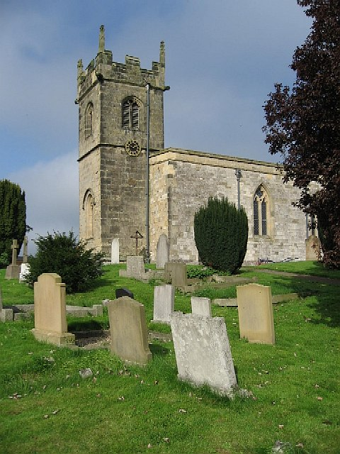 St Andrew's Church, Bugthorpe, East Riding of Yorkshire, England